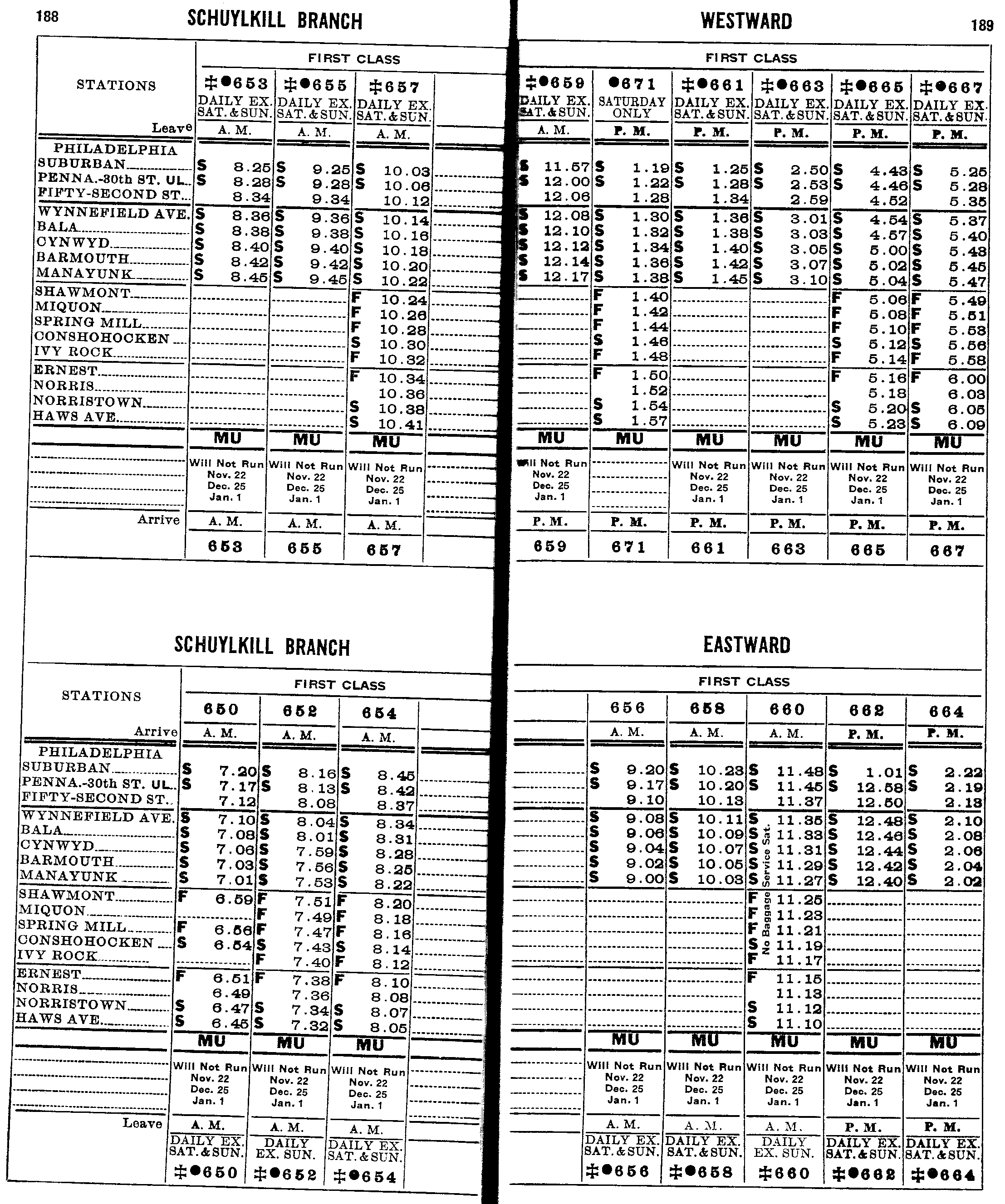 Pages 188-189 from The Pennsylvania Railroad (PRR) Employee Timetable Philadelphia Region No.2 (eff. 1956-10-28) showing the then-effective service between Norristown, Penn. and Philadelphia 30 St. Station (Suburban Level), Penn. Service was truncated to Manayunk, Penn. a few years later, and was further truncated under SEPTA to Cynwyd, Penn.